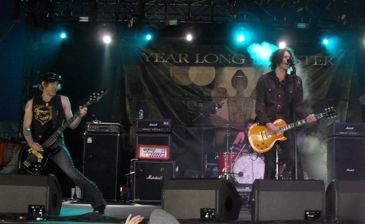 Thomas Geddes, taken at Download Festival 2010